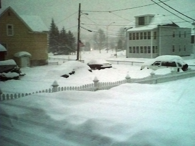 I took this picture on 2/14/07 In Berlin, NH at about 4:30PM.